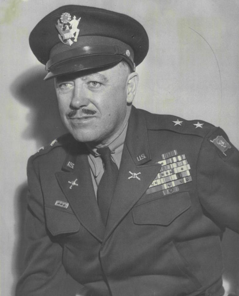 William Frederic Marquat (March 17, 1894 - May 30, 1959) was a Major General in the US Army. Prior to his service in the military, Marquat was a reporter for The Seattle Times. Prior to the Japanese invasion of 1941, Marquat served with the Office of the Military Advisor to the Commonwealth Government of the Philippines, as the chief engineering advisor.